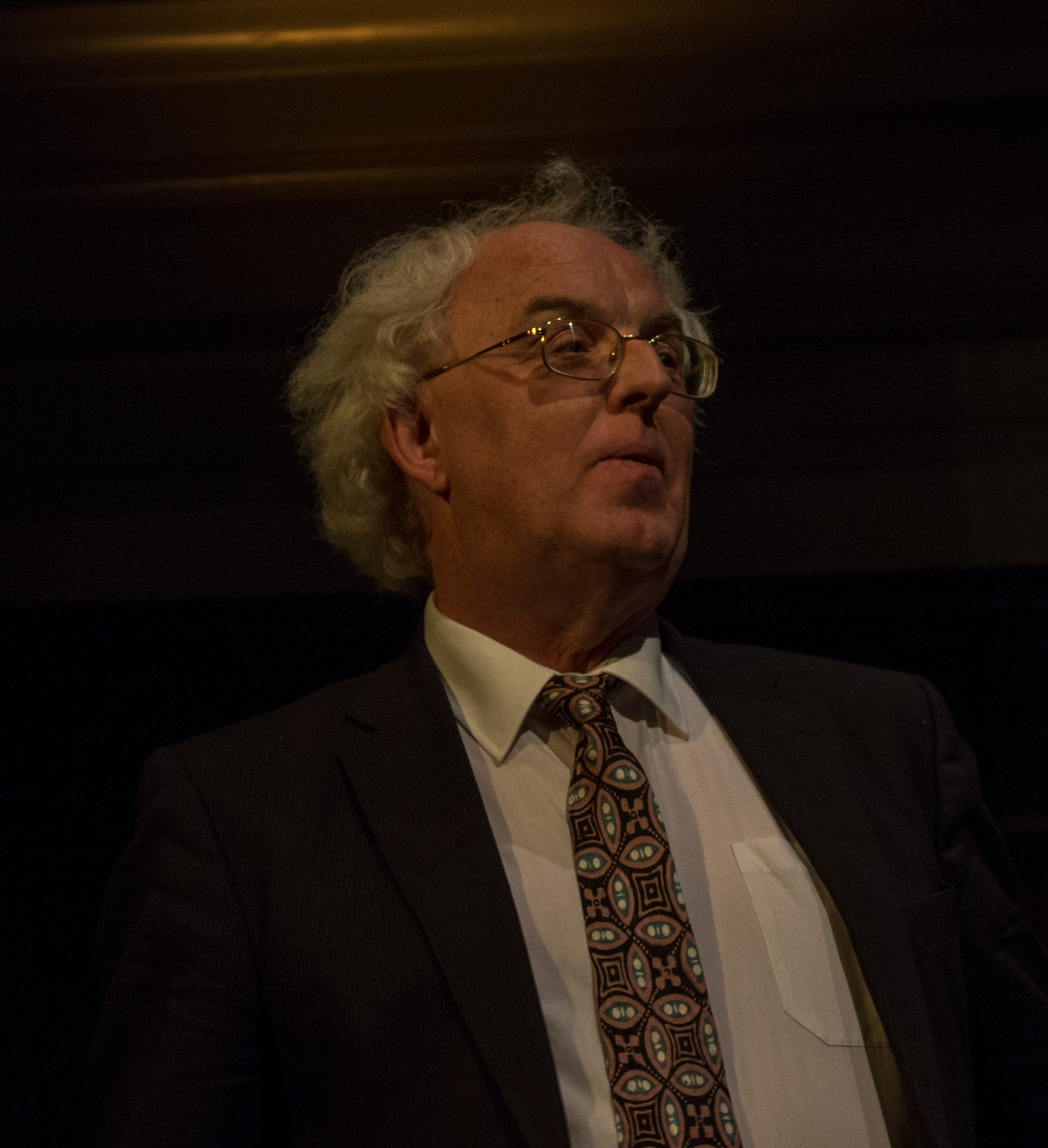 Frans van Ruth at the fundraising party for the second volume of the book "1001 vrouwen"